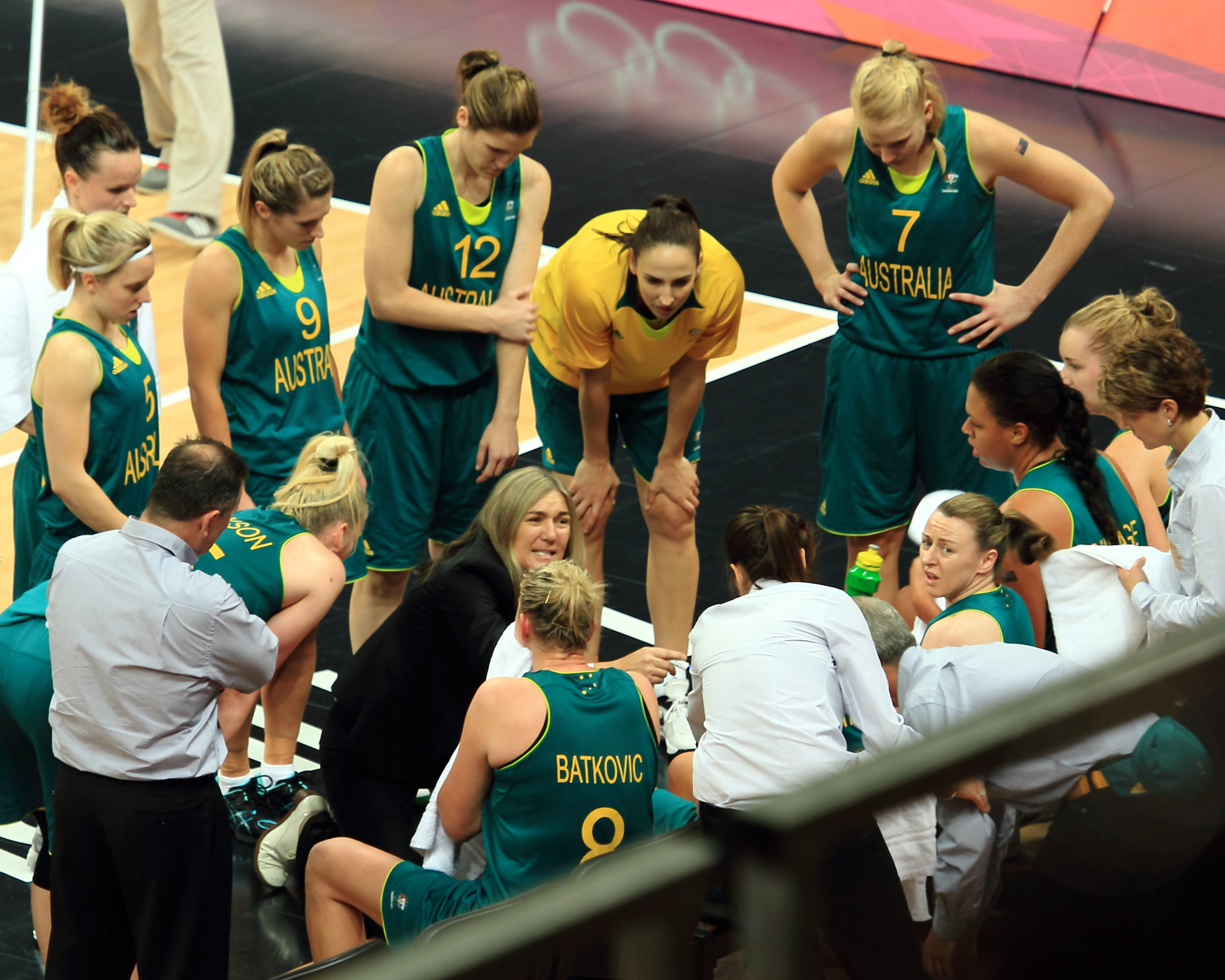 Carrie Graff, the Australian Womens Basketball Coach gives her team and time-out pep talk in the match against close Olympic Games group B rivals Russia. Australian won by the slighest of margins in this tight game 70-66